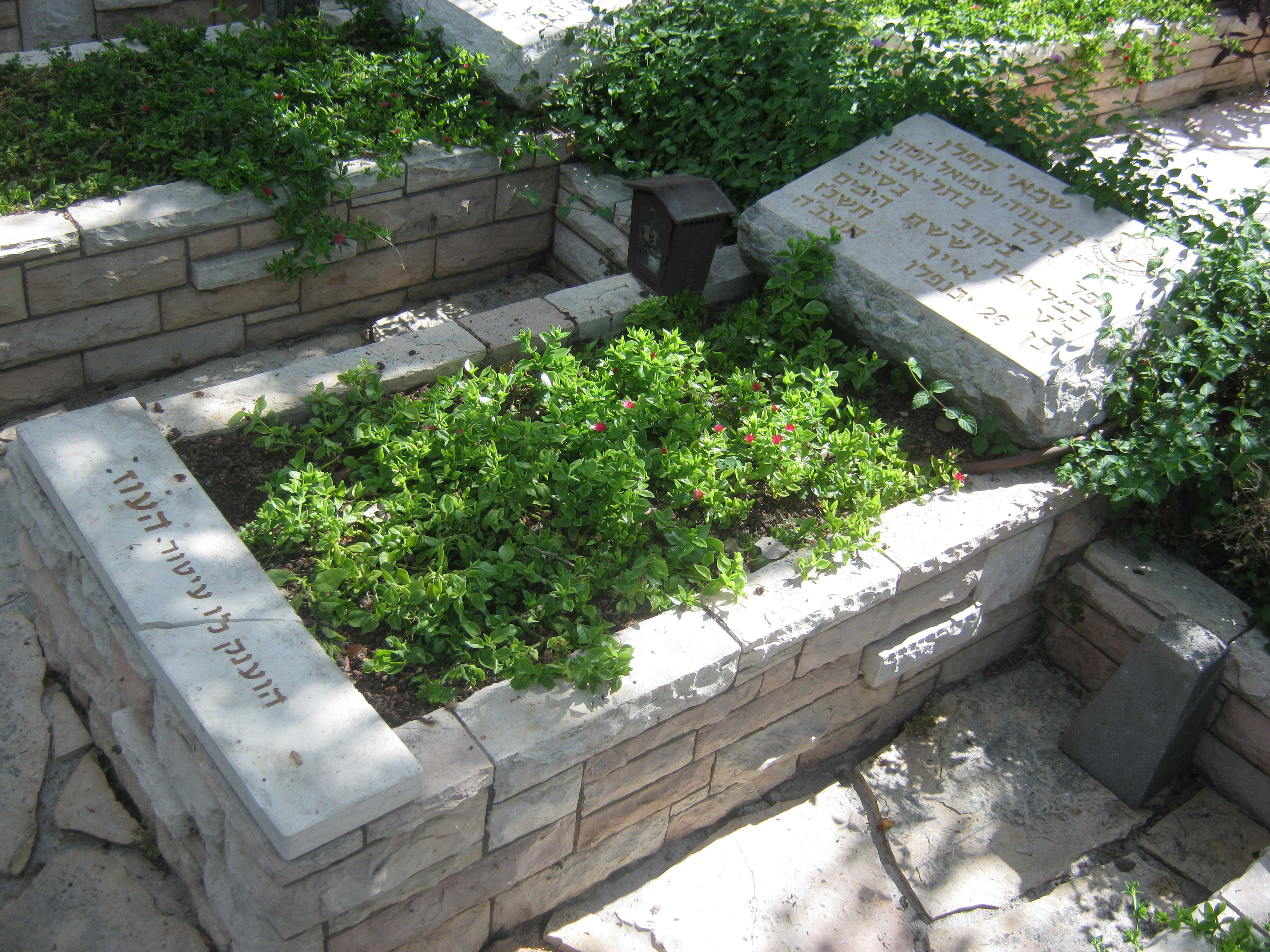 Headstone of Shamai Kaplan at Kiryat Shaul Military Cemetery